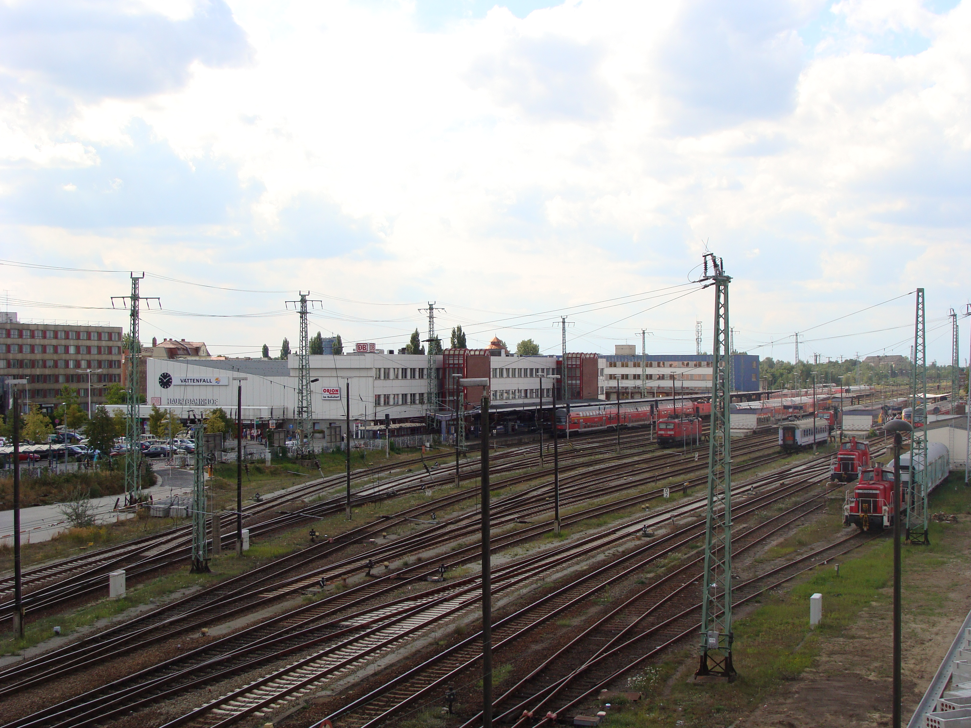 train station Cottbus